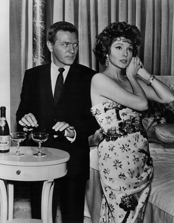 Photo of George Grizzard as Roger Shacklesforth and Patricia Barry as Leila from The Twilight Zone episode The Chaser.